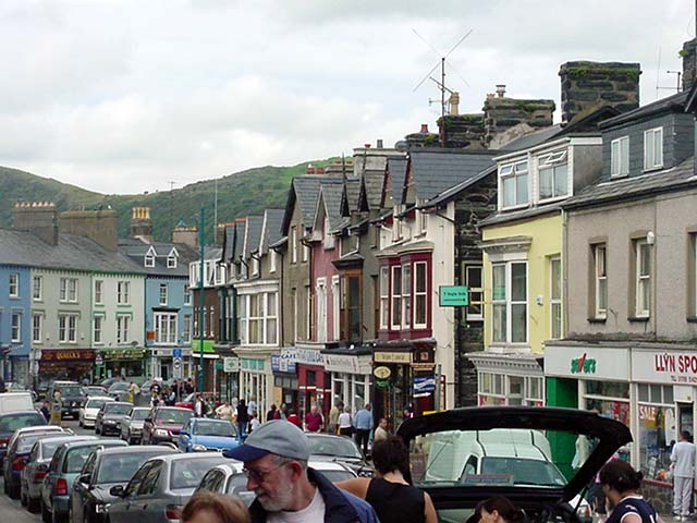 Porthmadog high street.